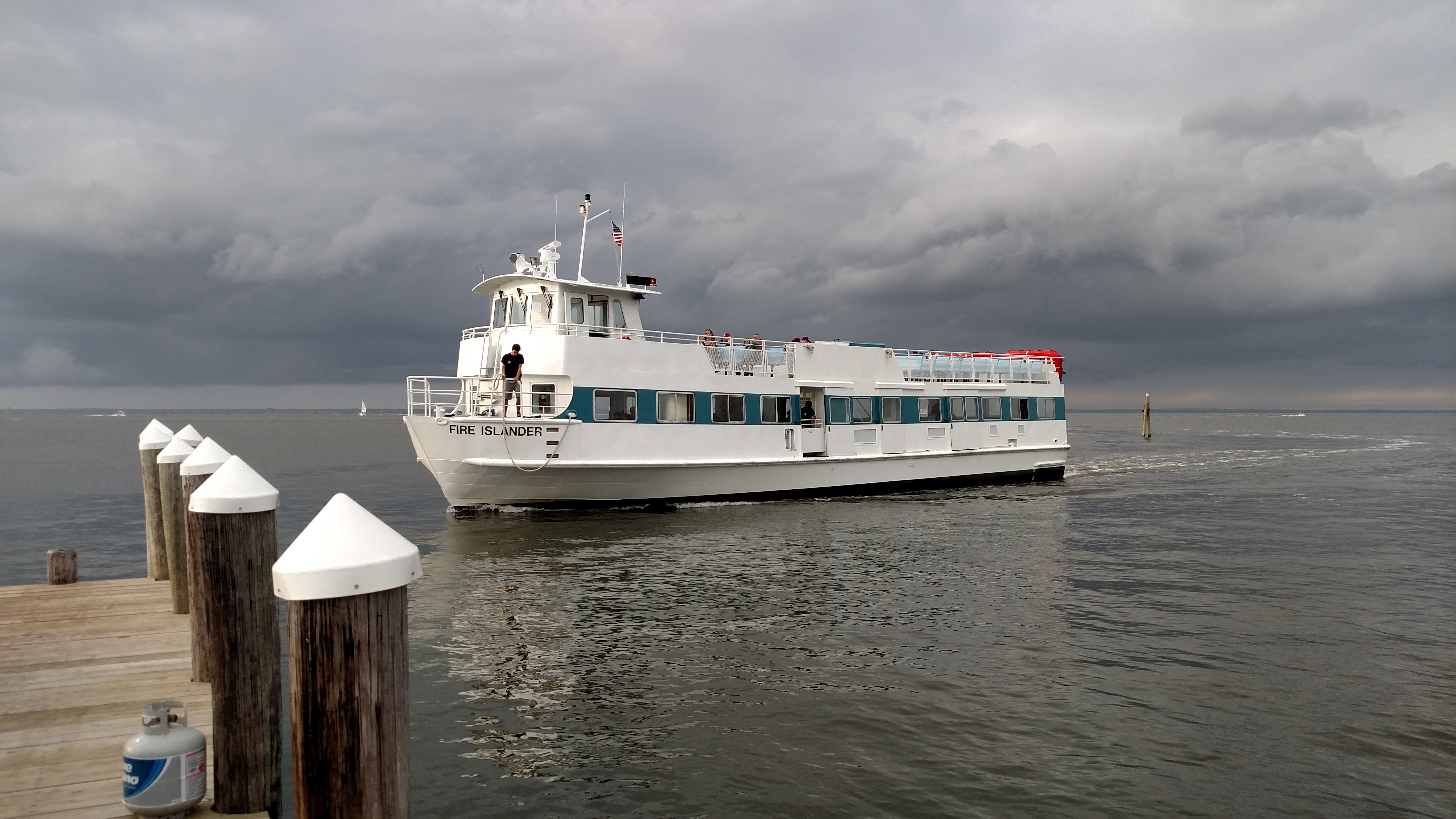 The Fire Islander, a ferry belonging to Fire Island Ferries, Inc, docking at Fire Island, NY.